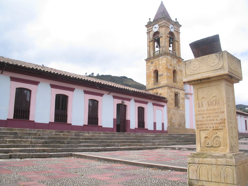 Iglesia Gachancipá Cundinamarca